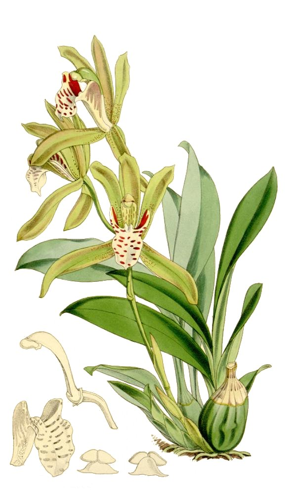 Illustration of Cymbidium tigrinum clean version made with GIMP by Frédéric 20:58, 3 March 2008 (UTC)